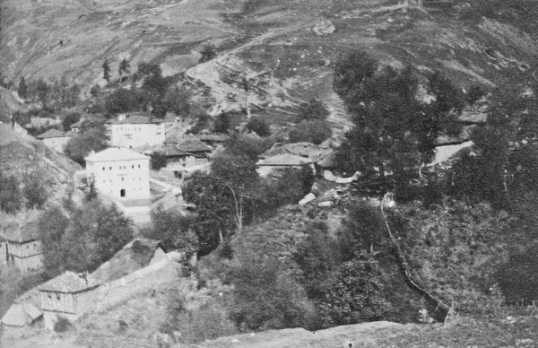 Brodec near Gostivar, Macedonia, 1907